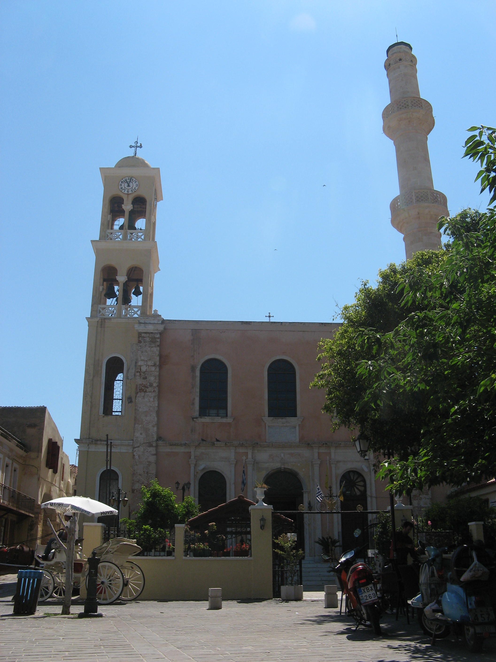 St Nicolaos church in Splantzias spuare in Chania